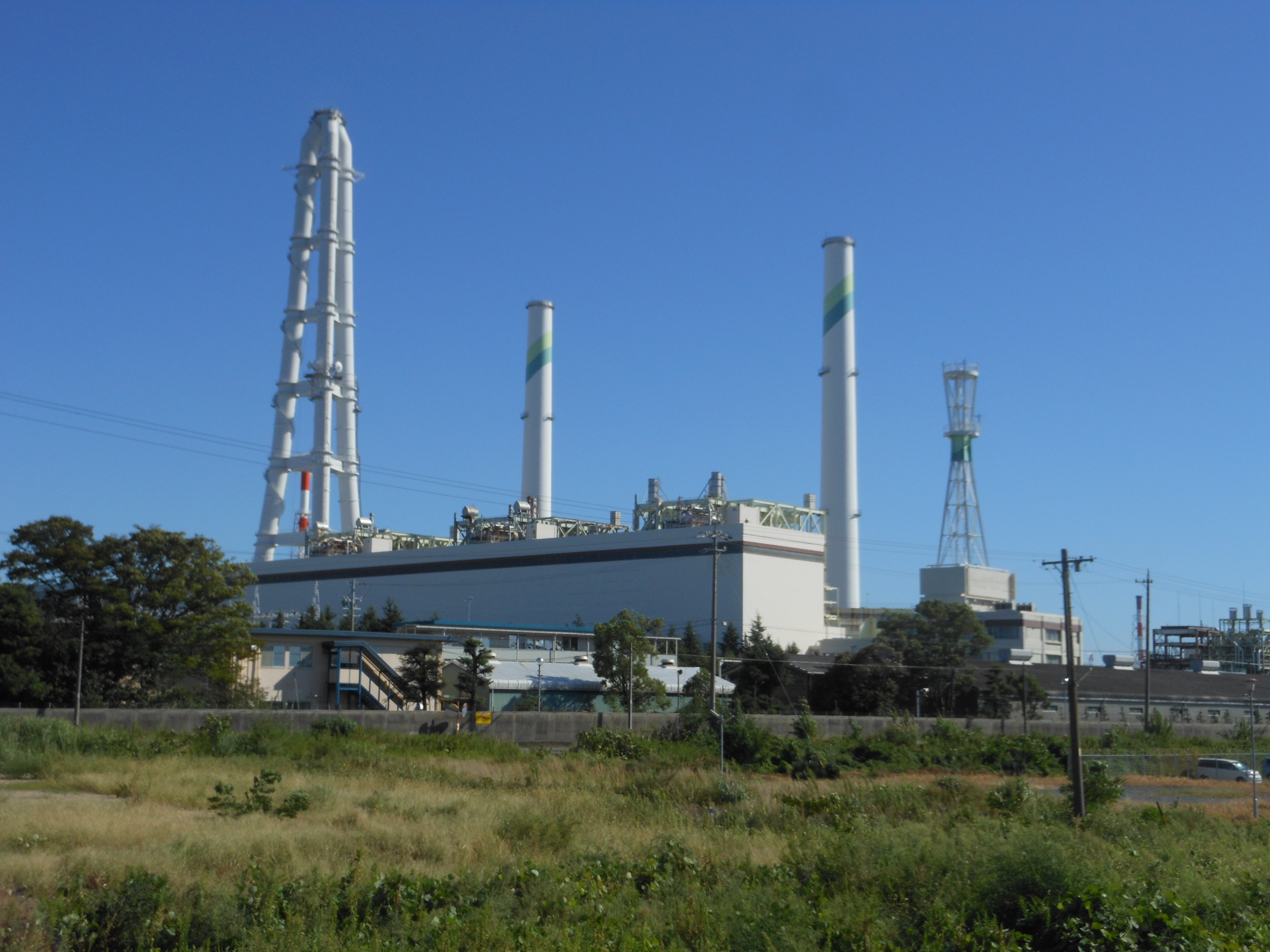 This is the Yokkaichi fired power plant, which is in Yokkaichi, Mie, Japan.